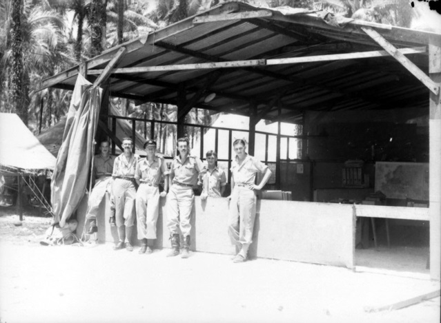 Personnel from No. 71 Squadron RAAF at Momote, on Los Negros, April 1944